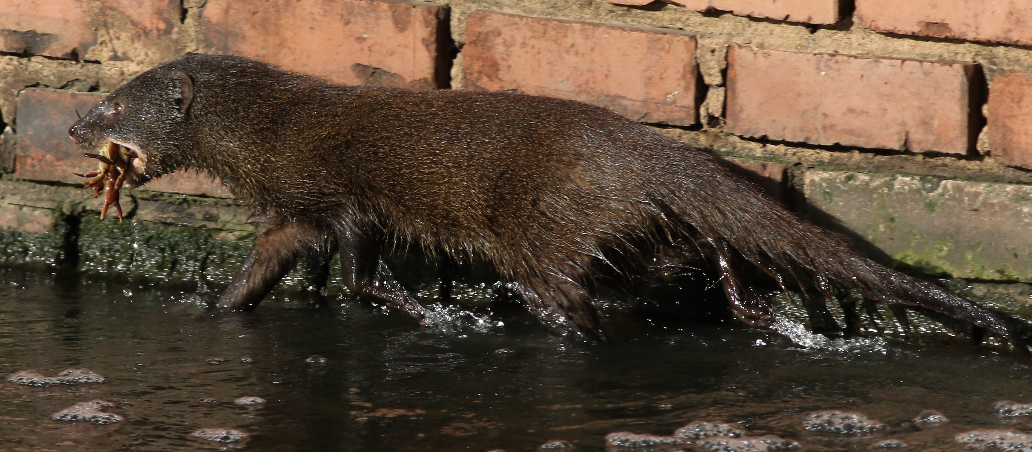 Marsh mongoose or water mongoose, Atilax paludinosus, at Rietvlei Nature Reserve, Gauteng, South Africa